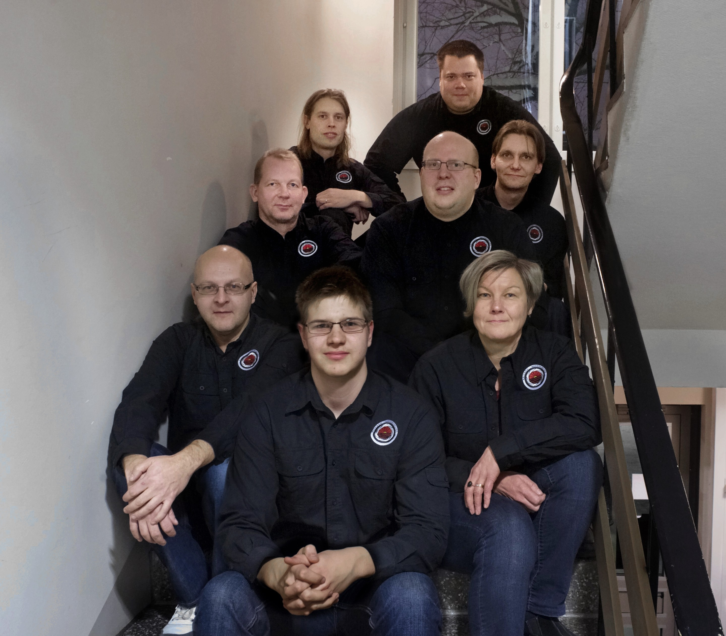 Board of the Photoclub Saimaan Kameraseura 2012.